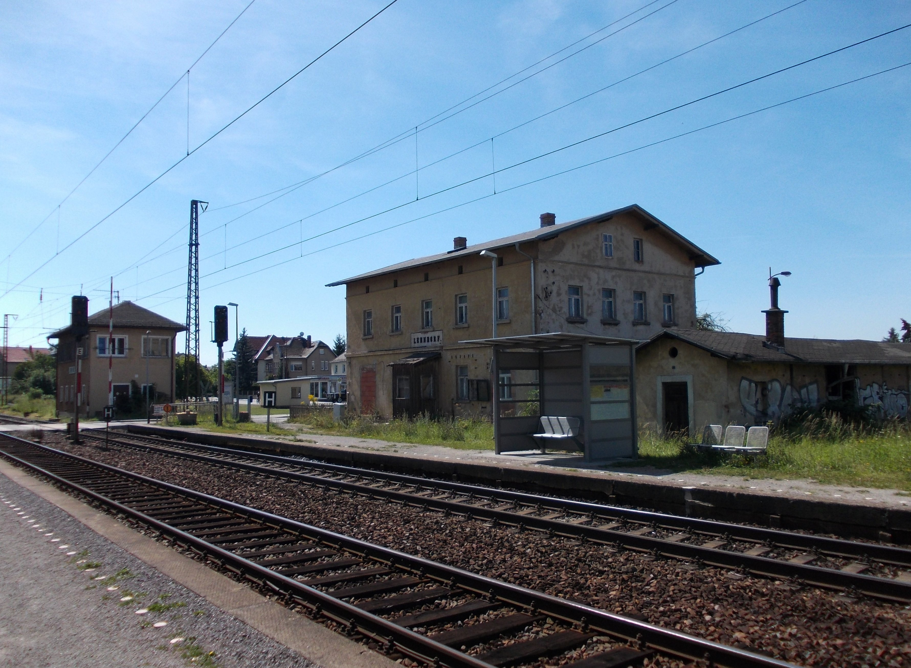 Lehndorf train station (Saara, district of Altenburger Land, Thuringia)